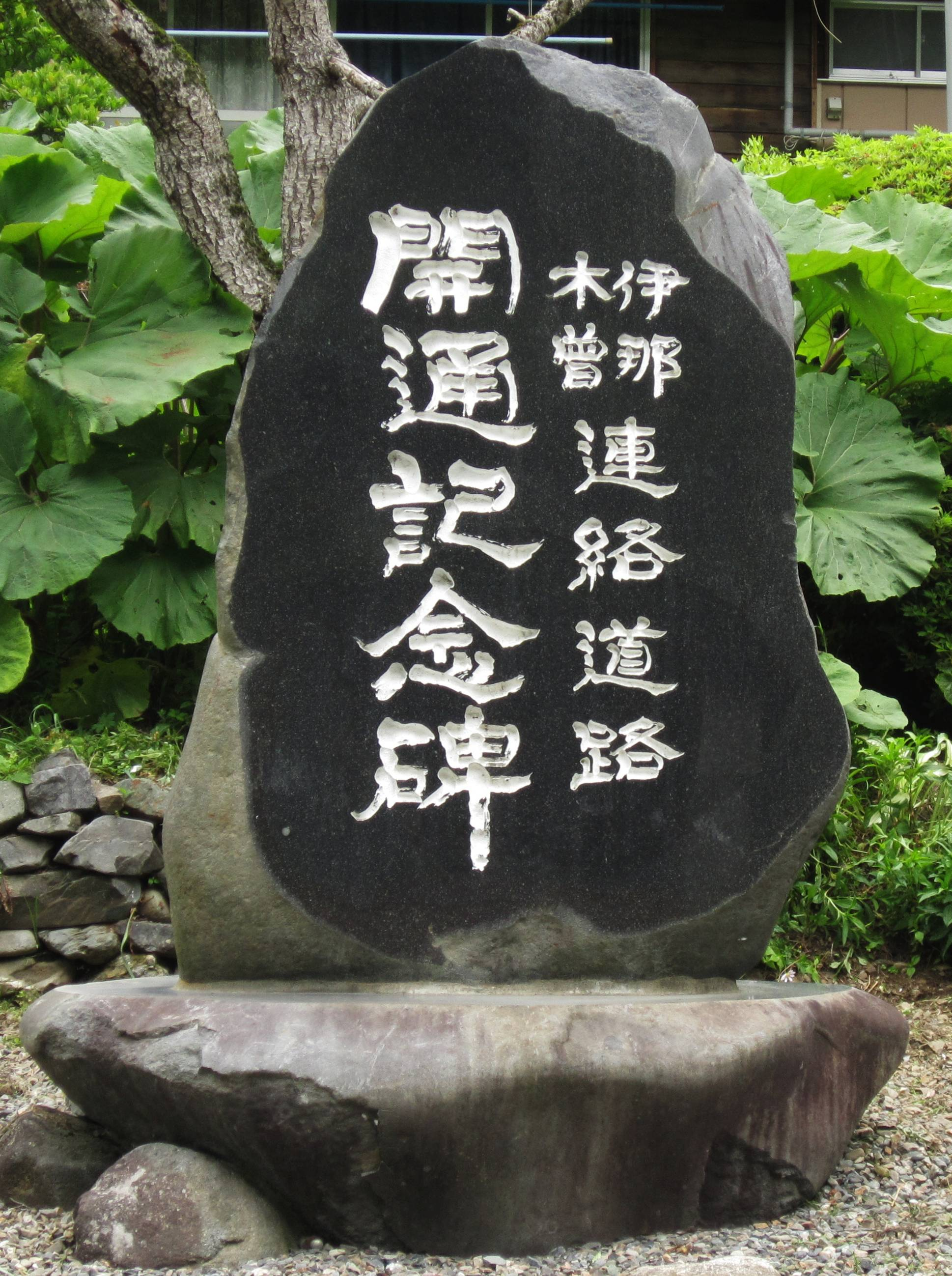 Ina-Kiso road monument.